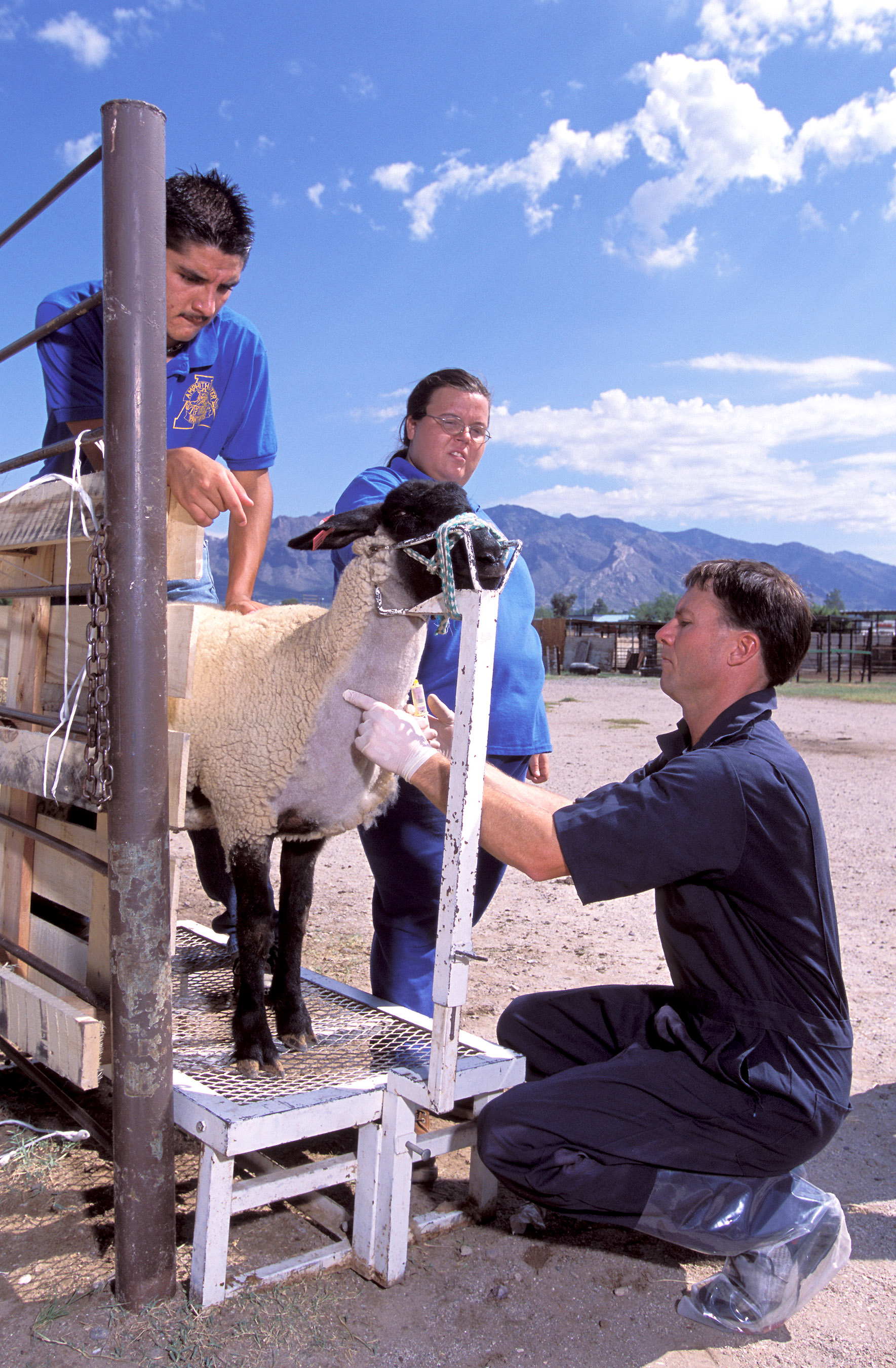 William Rivera and Betty Masulis keep a sheep calm while veterinarian John Duncan draws blood to test for genetic resistance to scrapie.